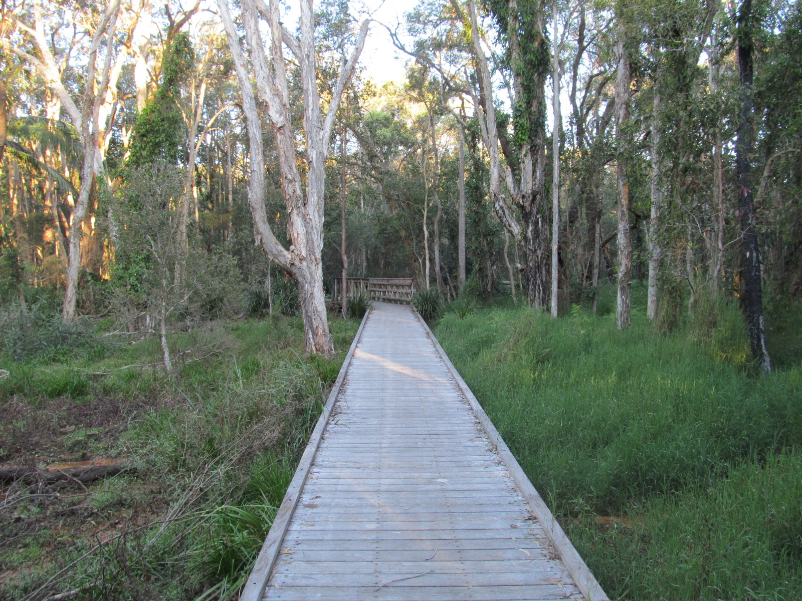 Wooden walkway through Squirrel Glider Conservation Area in Alexandra Hills, Queensland